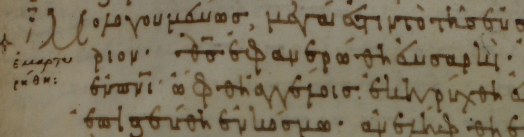 fragment of 317 folio recto of the codex 1424 (Gregory-Aland)